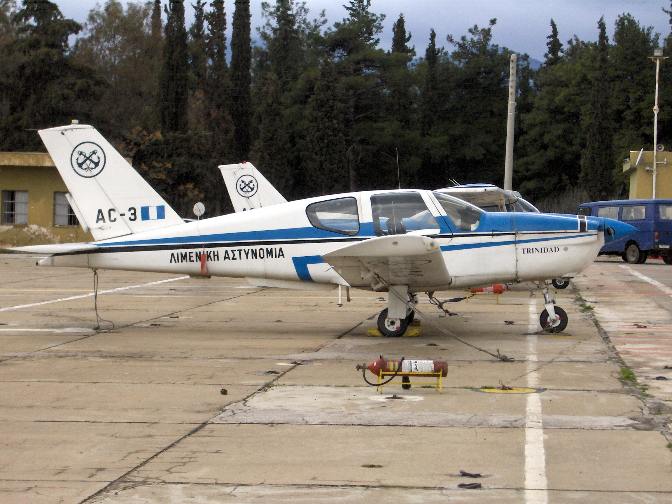 Socata TB-20 of the Hellenic Coast Guard.